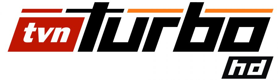 TVN Turbo HD logo